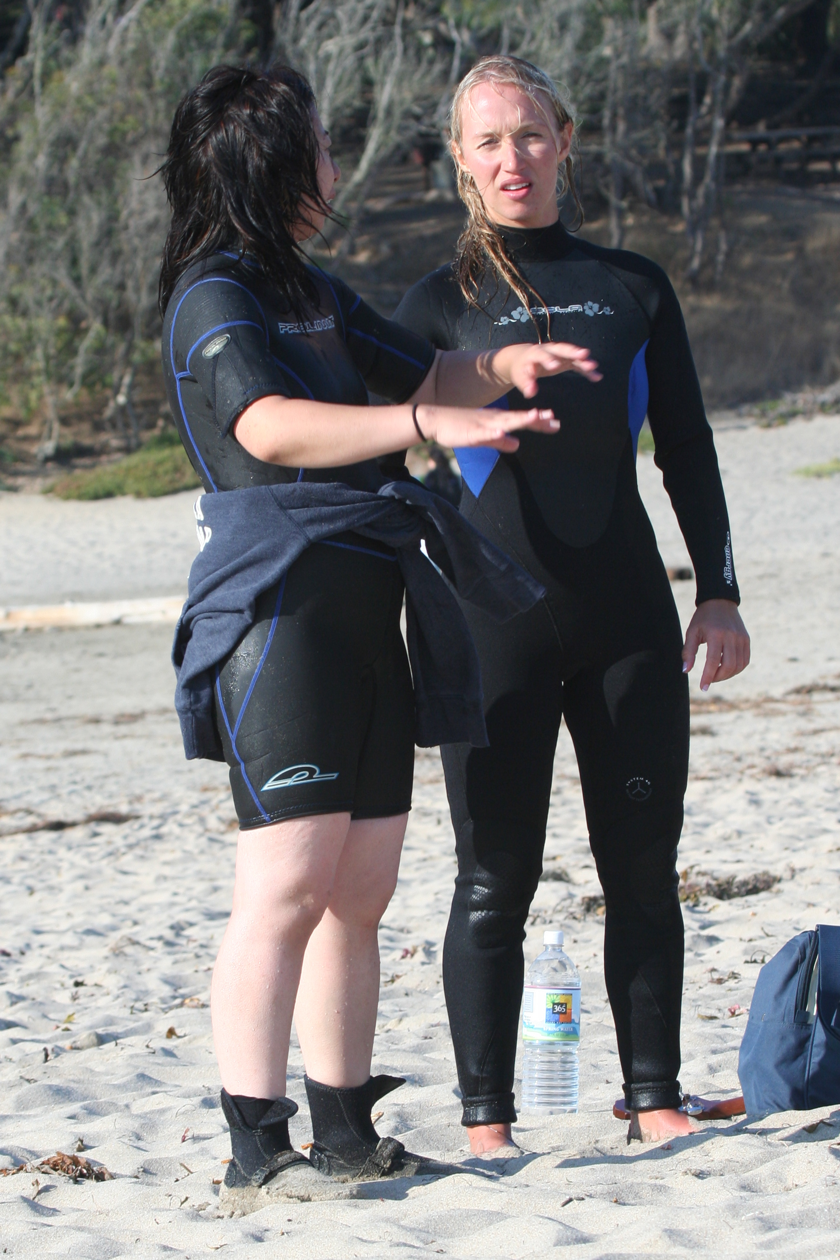 Two women on beach in wetsuits. Left wearing a shortie and wetsuit boots, right wearing one piece full length suit with back zipper. Original file cropped to display wetsuits better.